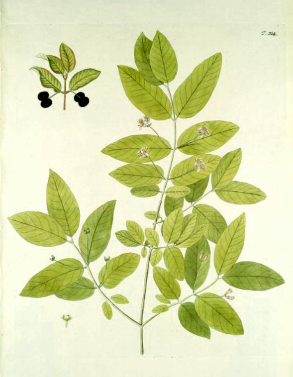 Illustration of Lonicera nigra